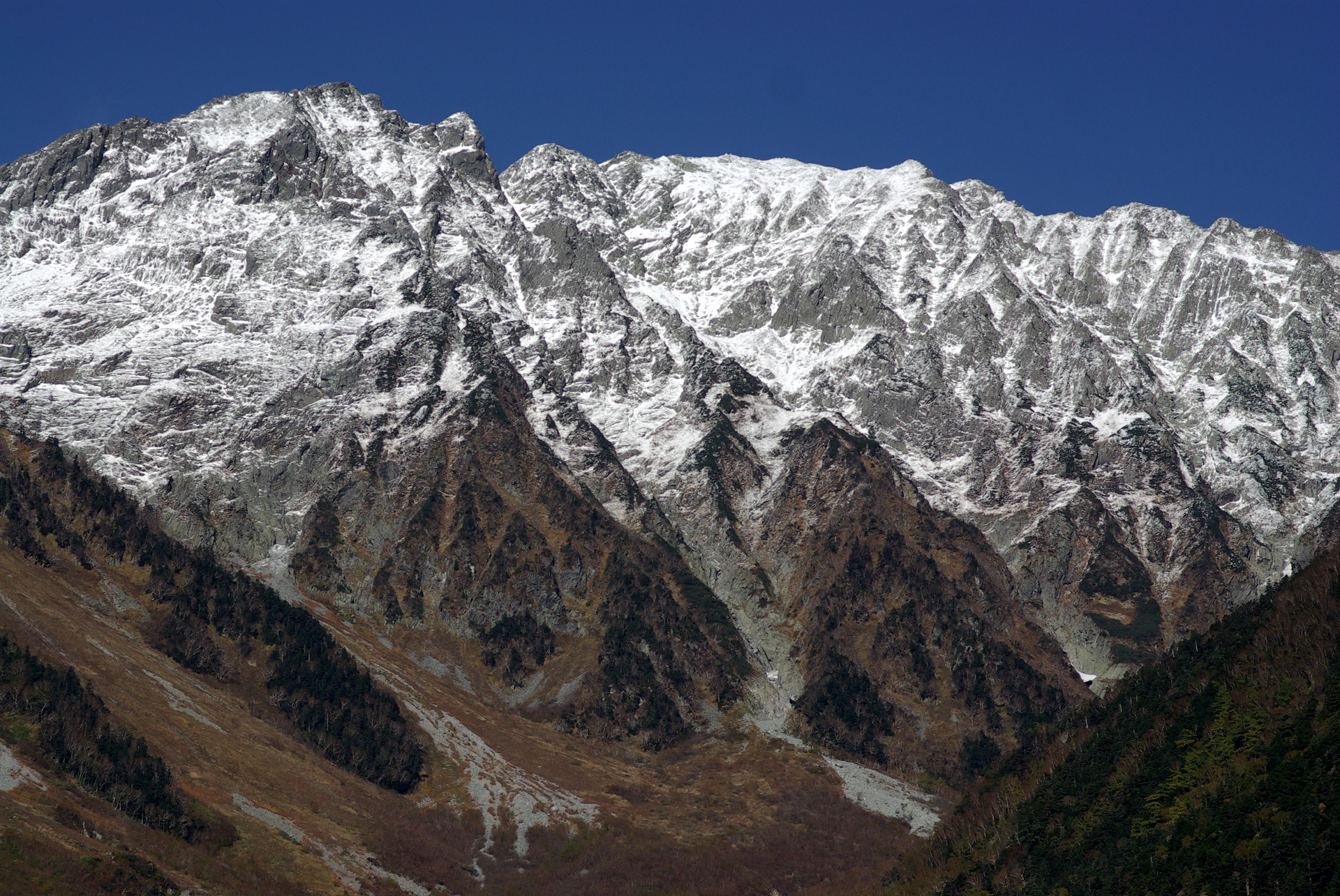 Oku-Hotakadake (3190m) from Kamikōchi(1505m) in Matsumoto, Nagano prefecture, Japan